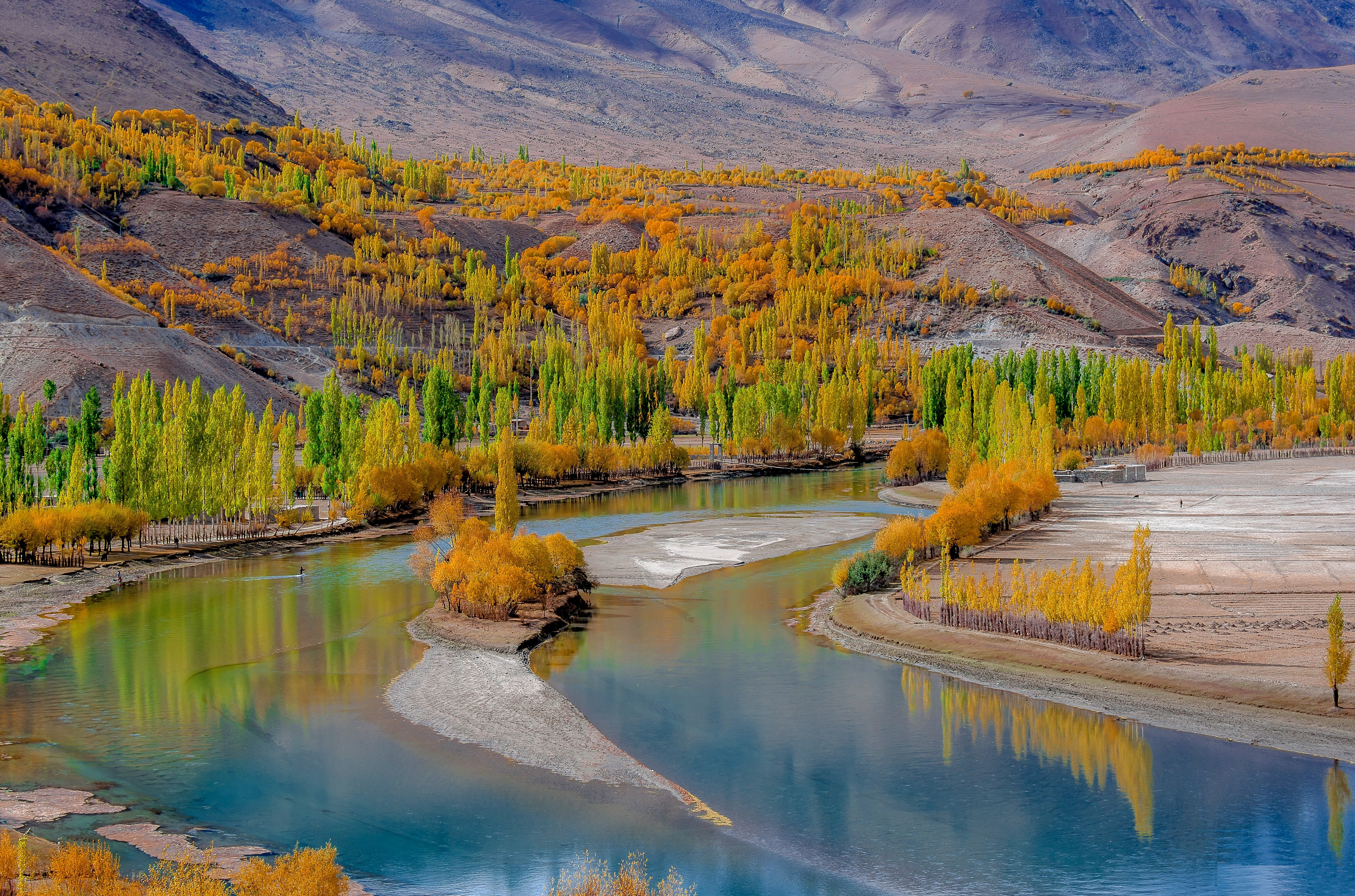 Autumn colors of Phandar Valley, G.B